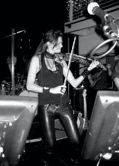 Astrid Bryan playing violin at Paul Allen's studio in Beverly Hills, CA